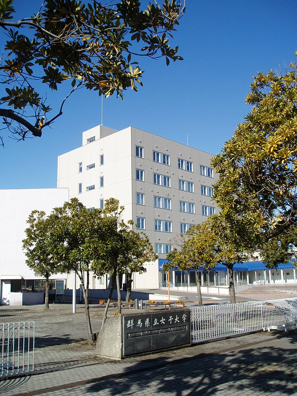 The main entrance of Gunma Prefectural Women's University located in Tamamura, Gunma, Japan.